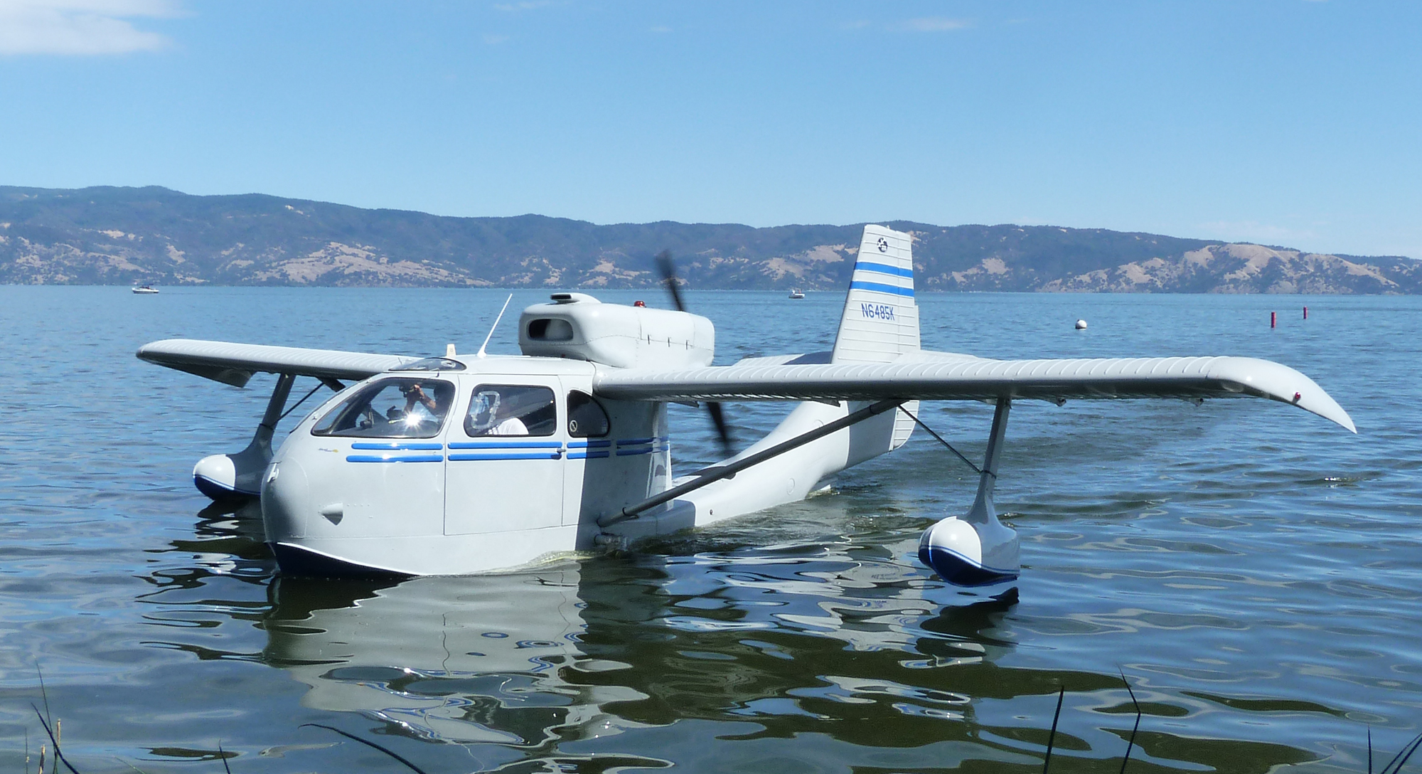 Republic RC-3 Seabee N6485K